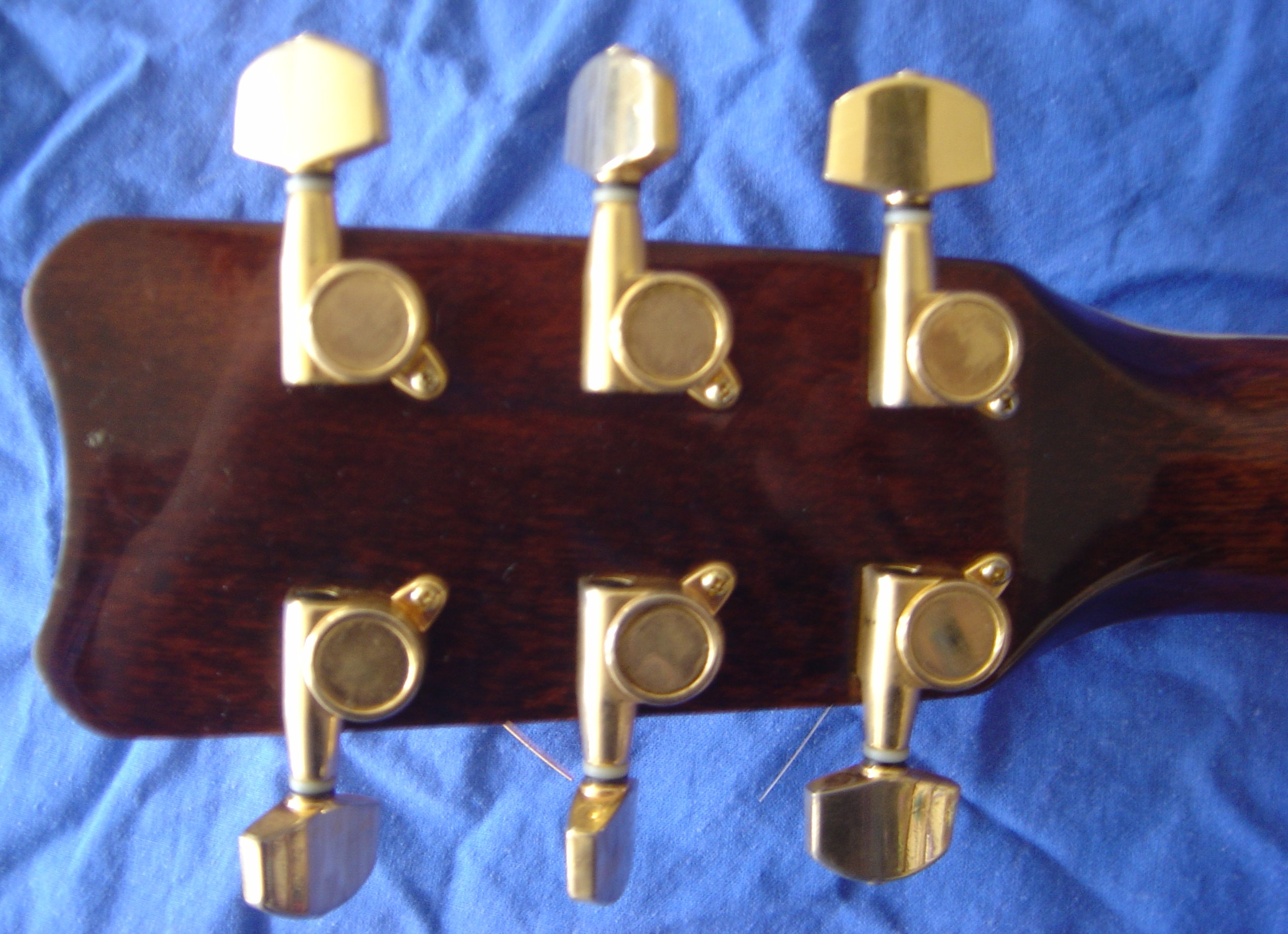 reverse of the head of a folk guitar (c) 2004 David Monniaux